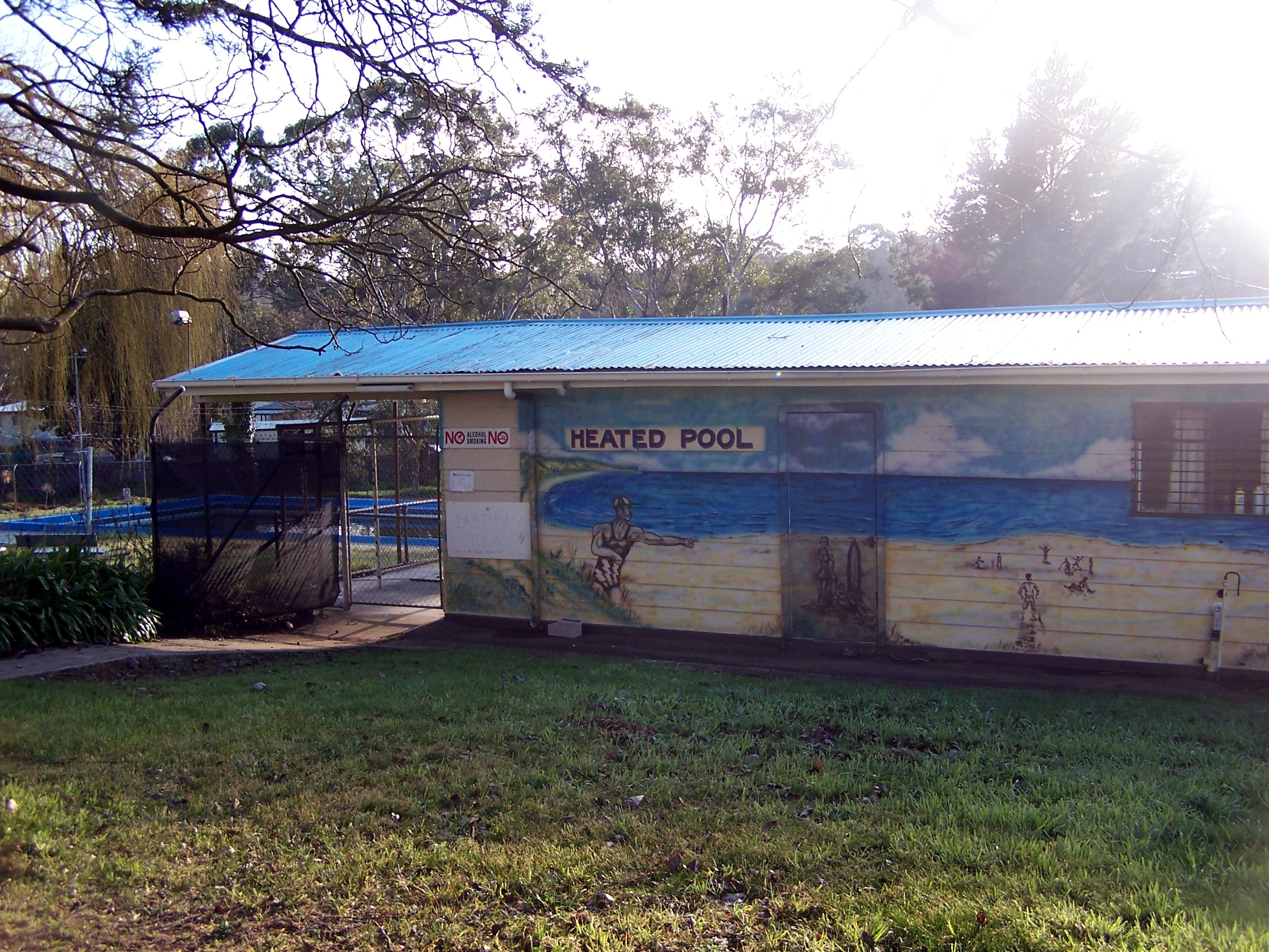 See above